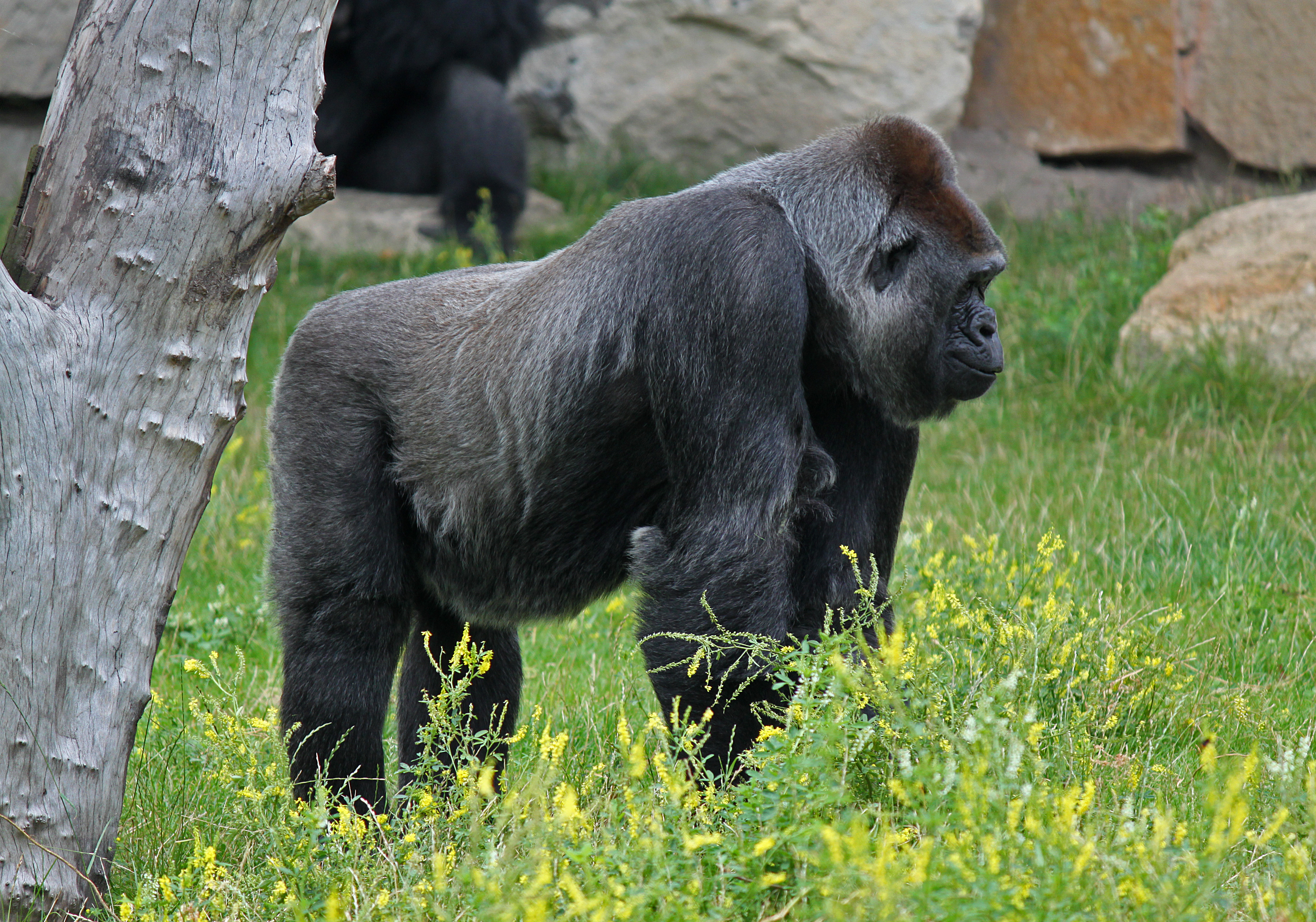 Gorilla gorilla gorilla, Hominidae, Western Gorilla; Zoological Garden Berlin, Germany.